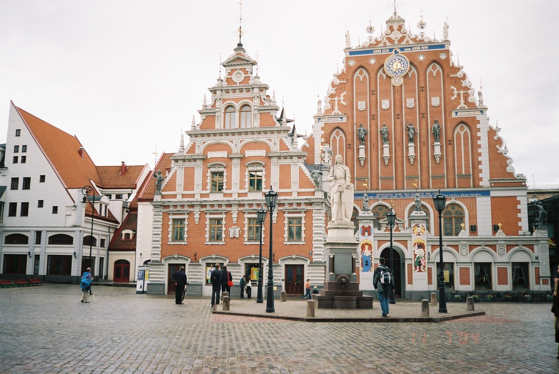 Riga, Latvia: Town Hall Square and "Guild of Blackheads" House